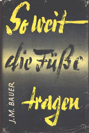 Early edition of Josef Martin Bauer's As far as my feet will carry me